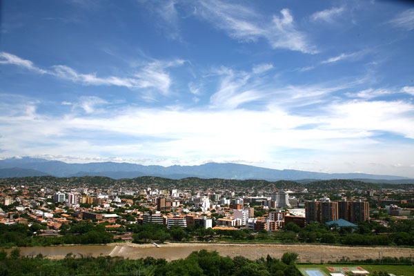 Skyline of Cúcuta, Colombia